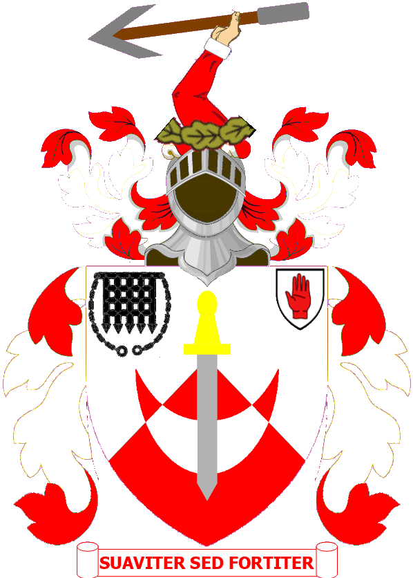 The armorial achievement of the Chapman baronets of Cleadon